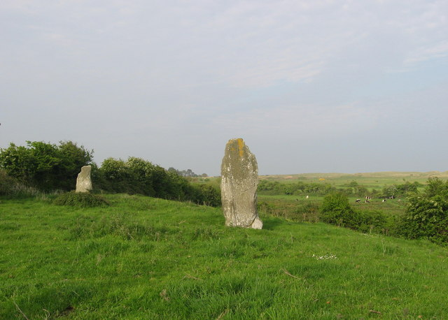 Standing Stones at Baltray Two upright shale slabs, 1.8m and 2.9m high, on a ridge overlooking lowlying ground and dune system towards the sea.